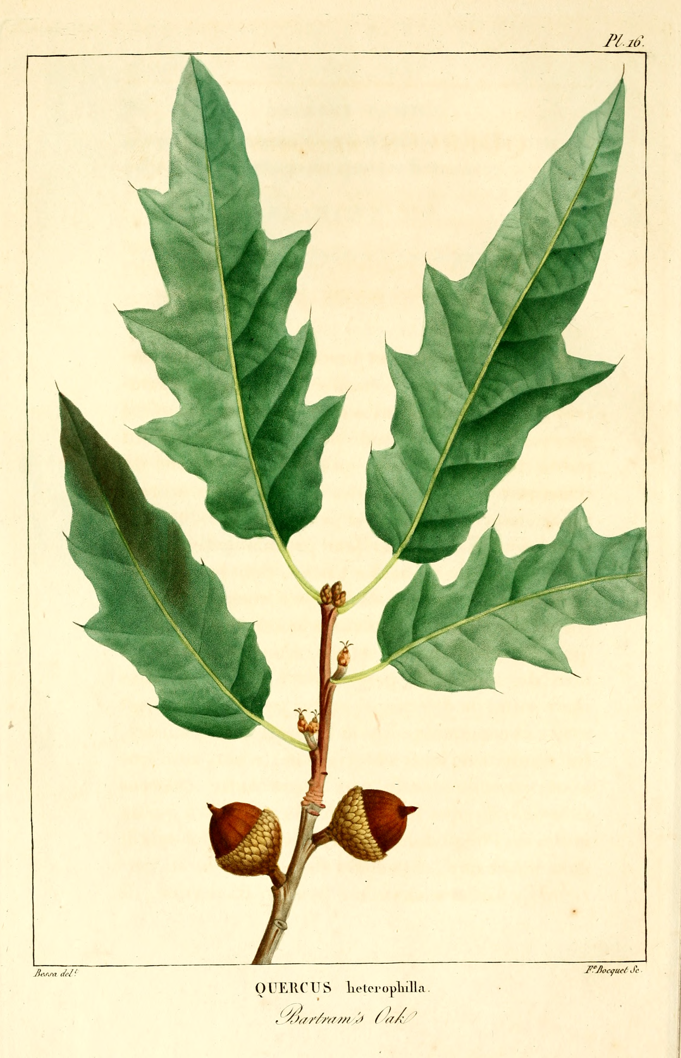 Quercus × heterophylla [Quercus phellos × Quercus rubra] - Bartram's Oak